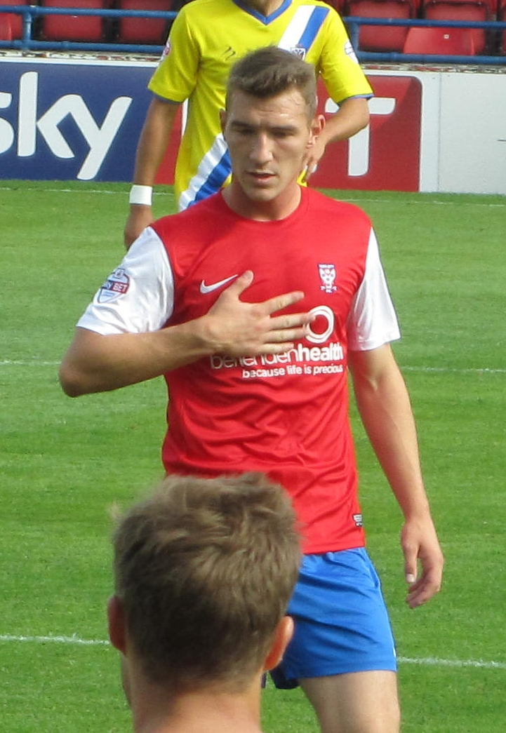 Craig Clay playing for York City against AFC Wimbledon at Bootham Crescent, York on 7 September 2013